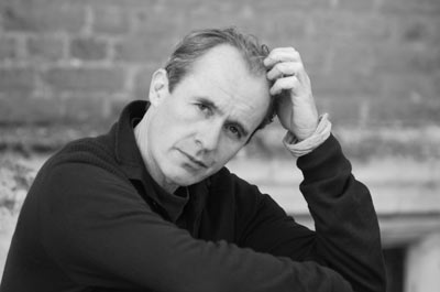 Actor Stephen Dillane in the year 2008. Image uploaded 2009.